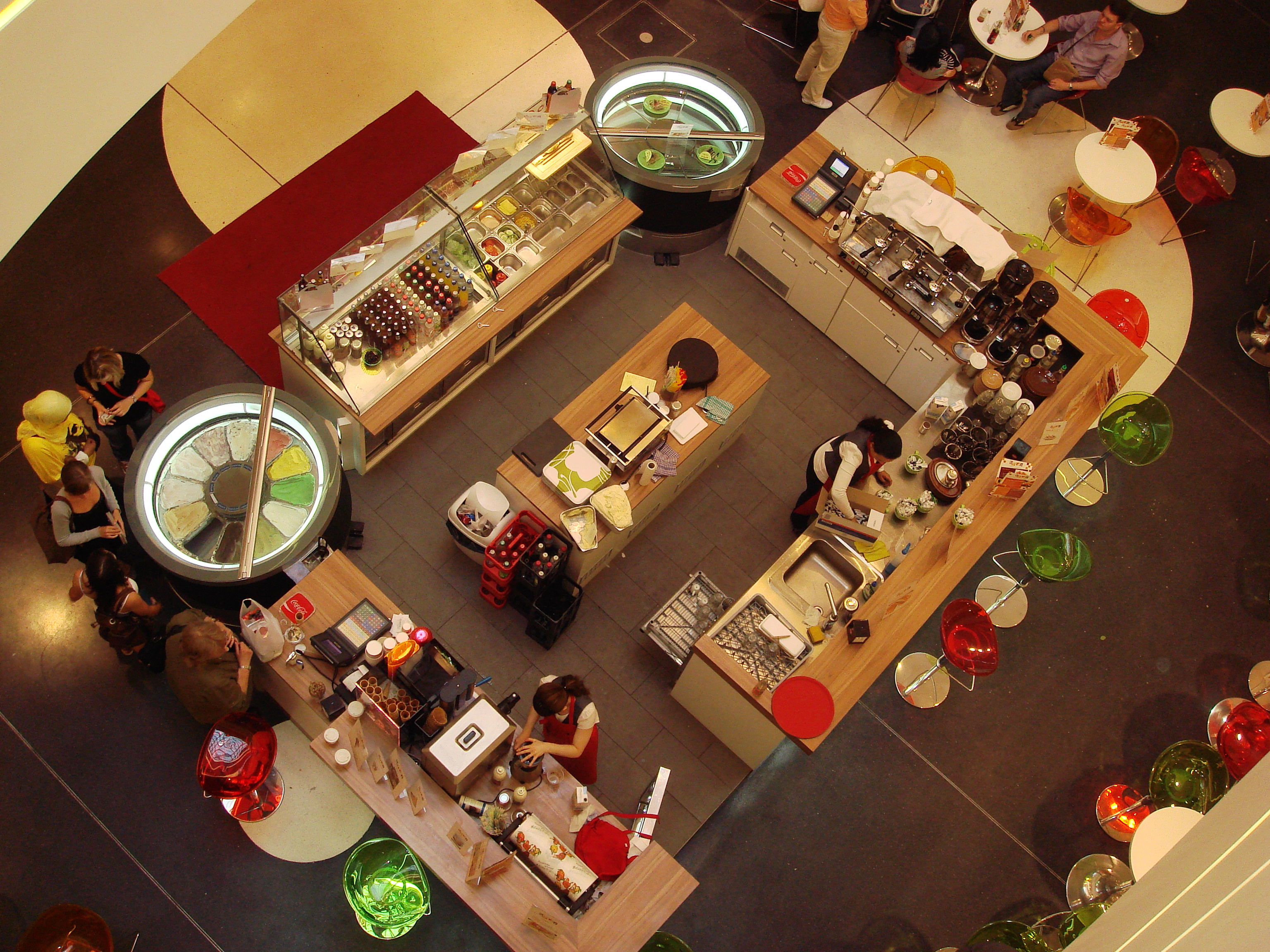 Top view of an elegant Eisboutique in a mall